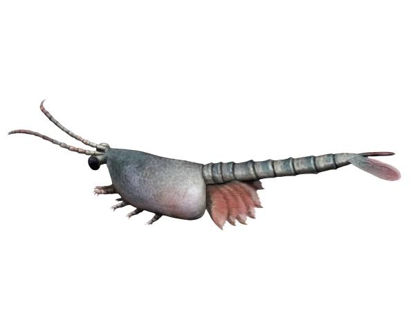 Life reconstruction of Waptia fieldensis